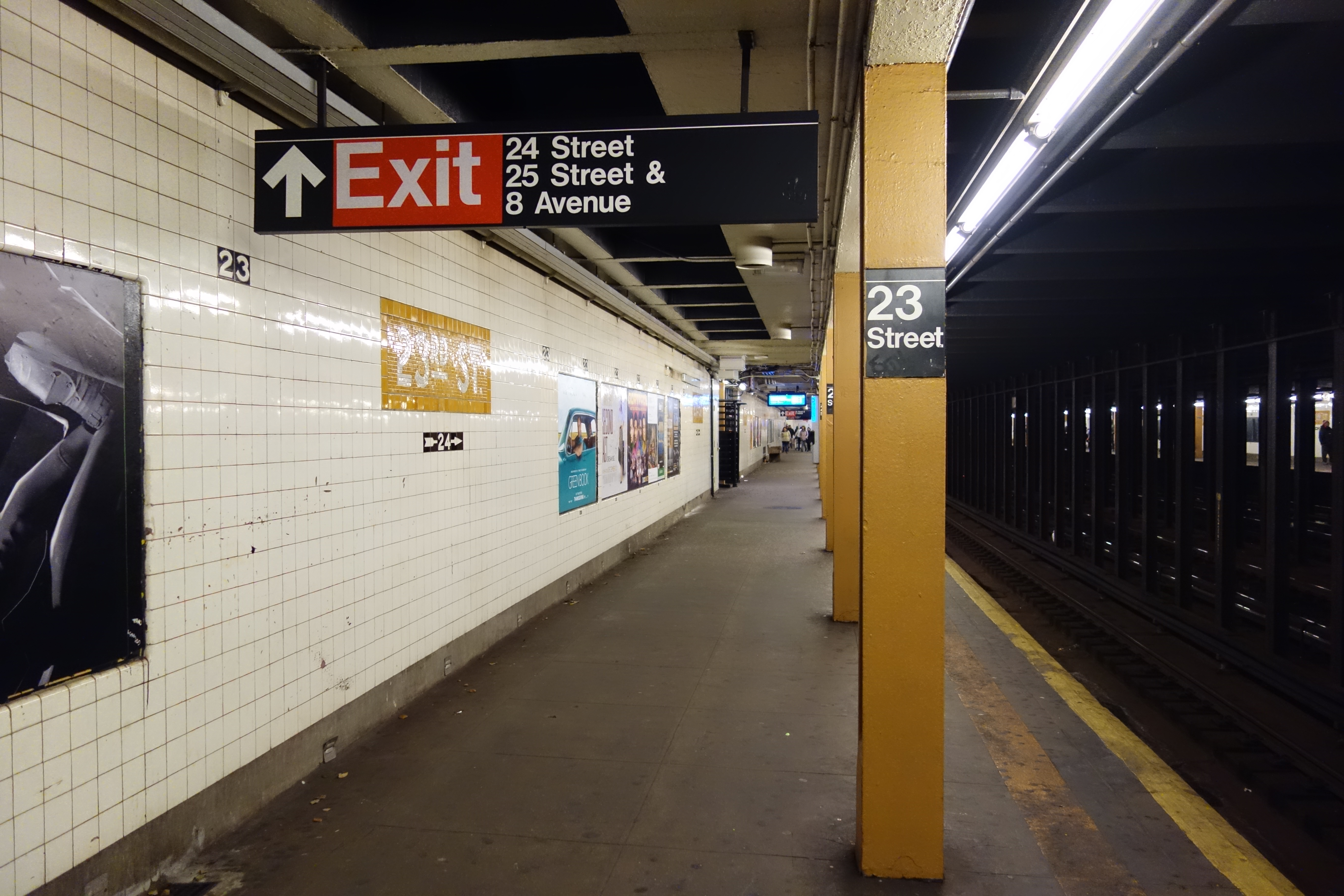 Looking north from the center of the Downtown platform of the 23rd Street IND Eighth Avenue station, under 8th Avenue and 24th Street in Chelsea, Manhattan.